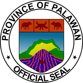 Provincial seal of Palawan, Philippines.